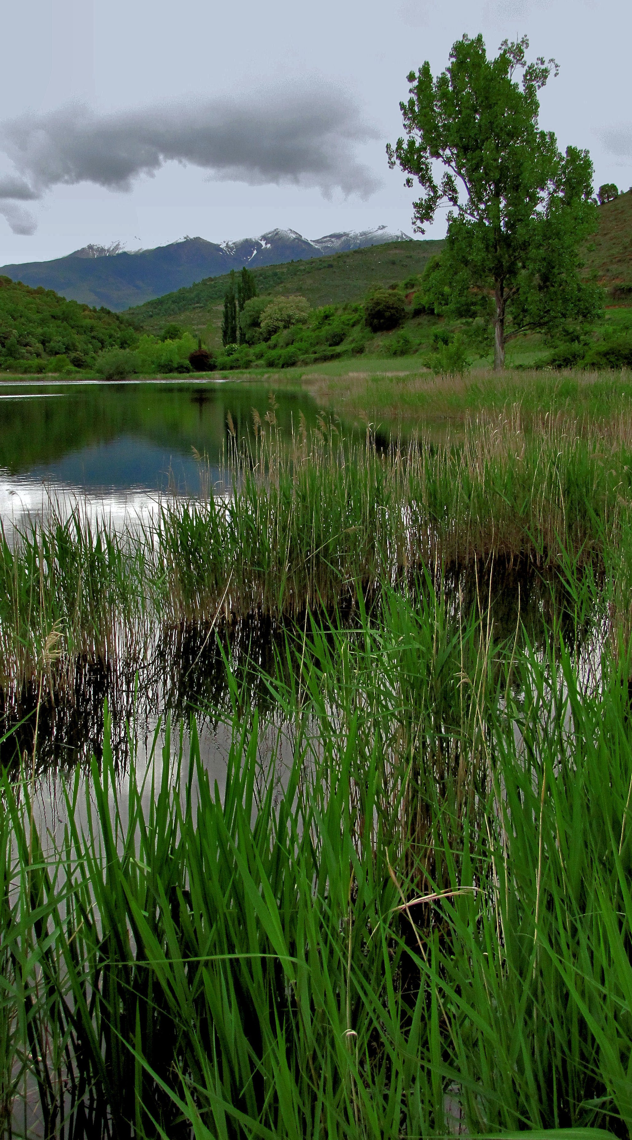 The lake is a real discovery Montcortès for nature lovers. Even more when we learn that it is one of the few karst lakes in the country, no ice. This means that the water comes from an internal source, as in the case of Banyoles. It has a maximum depth of thirty meters and the entrance is underground water, since there is no river that feeds it. This is a a photo of a natural area in Catalonia, Spain, with id: ES510108